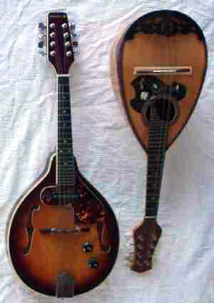 Flat and teardrop (aka round) neopolitan mandolins. Image:Mandolinsback.jpg